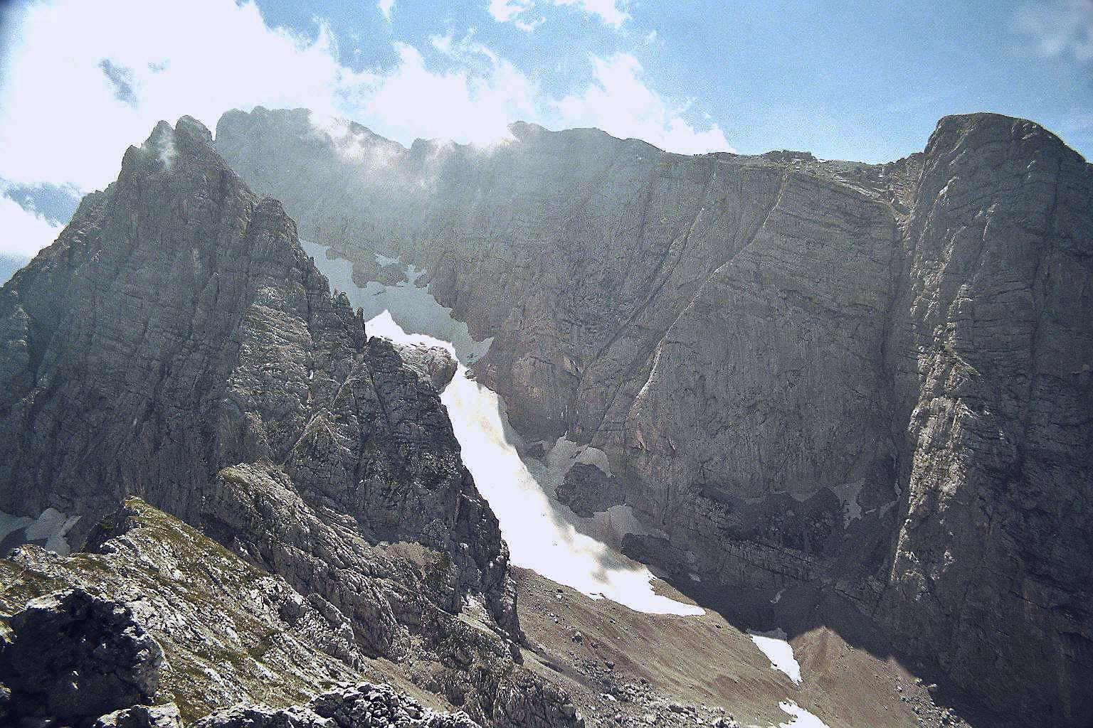 The summit of the Hochkalter (2,607 m), surrounded by cloud, above the Blaueis Glacier in the Alps. Left: the Blaueisspitze (2,480 m); right: the Kleinkalter (2,513 m) and Rotpalfen (Wasserwandkopf, 2,367 m).